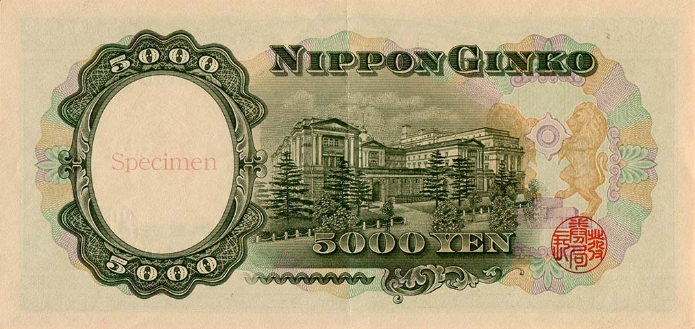 Series C 5000 Yen Bank of Japan note. Bank of Japan building. First issued in 1957. Issue suspended in 1986. Legal tender. 169mm x 80mm.